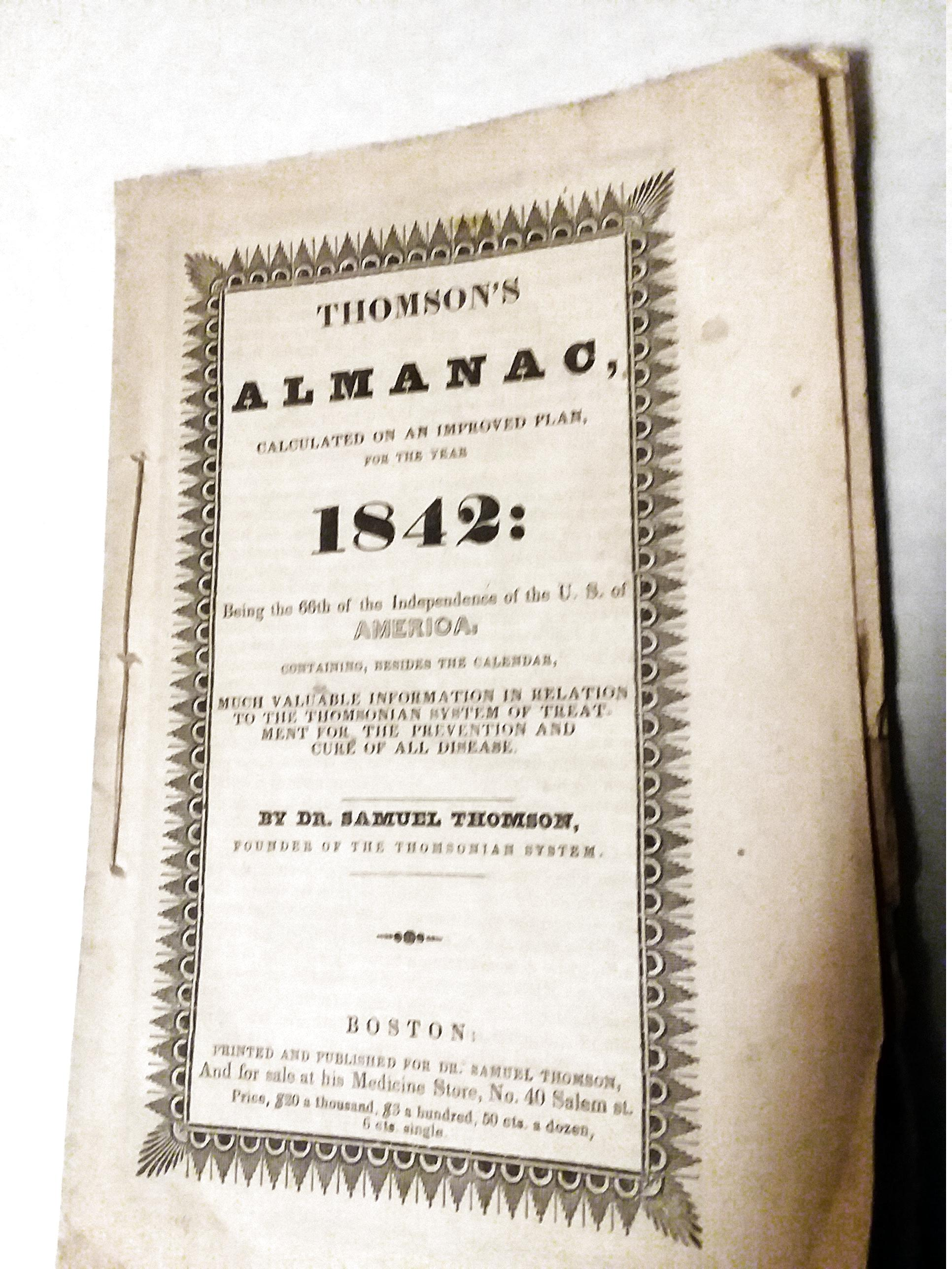 Thomson's Almanac for the Year 1842